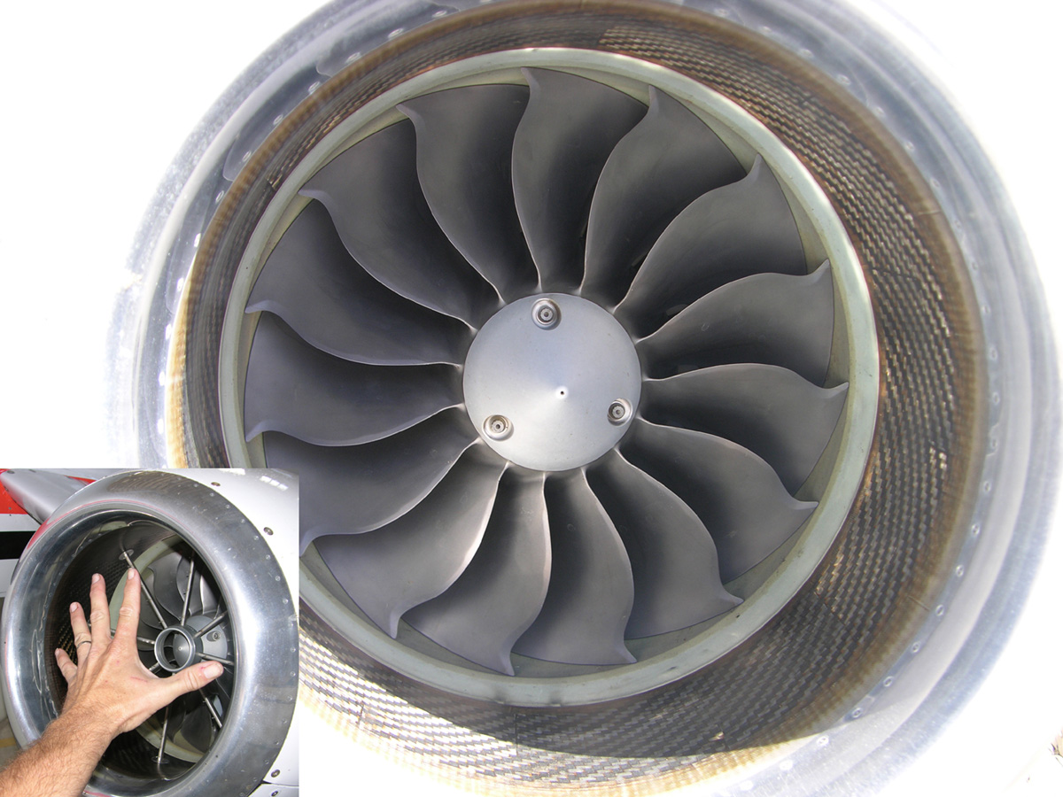 Inlet for the PW610F turbofan engine used on the Elipse 500 flight test aircraft, Mojave Airport. Inset shows relative size of this very small jet engine.